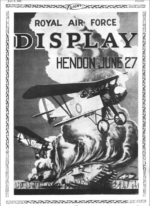 Royal Air Force Display Hendon 1925. Flight Mag poster